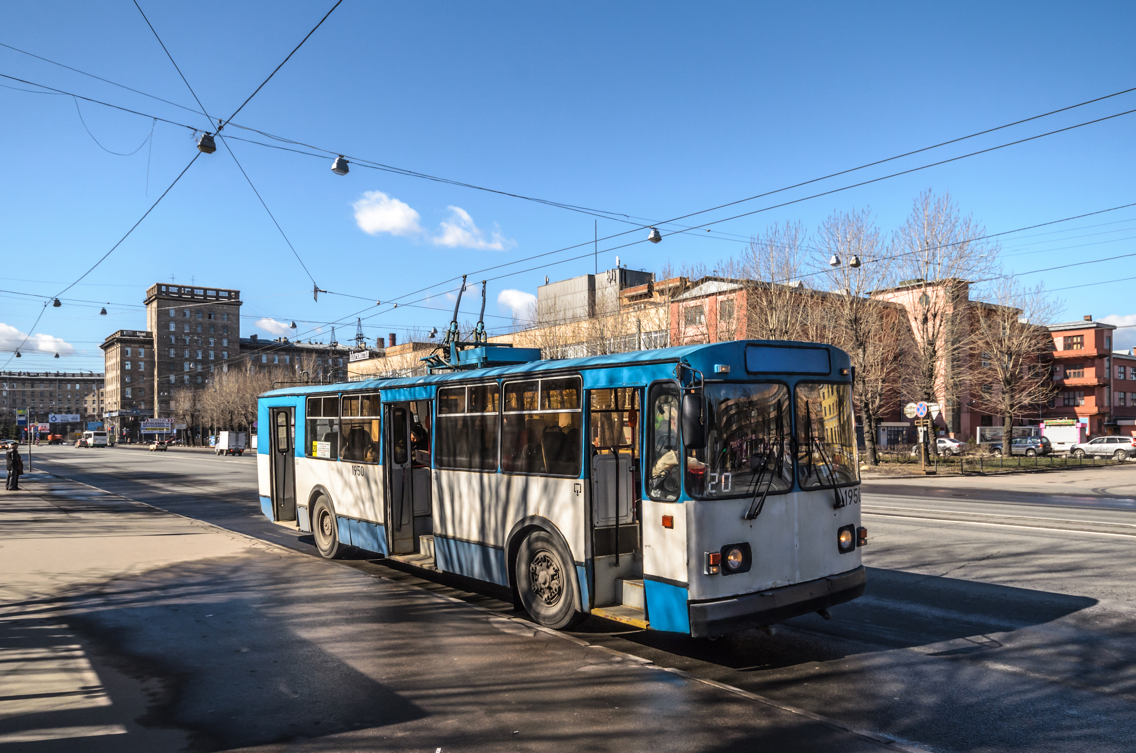 Trolleybus ZiU-682G at Stachek avenue in Saint Petersburg